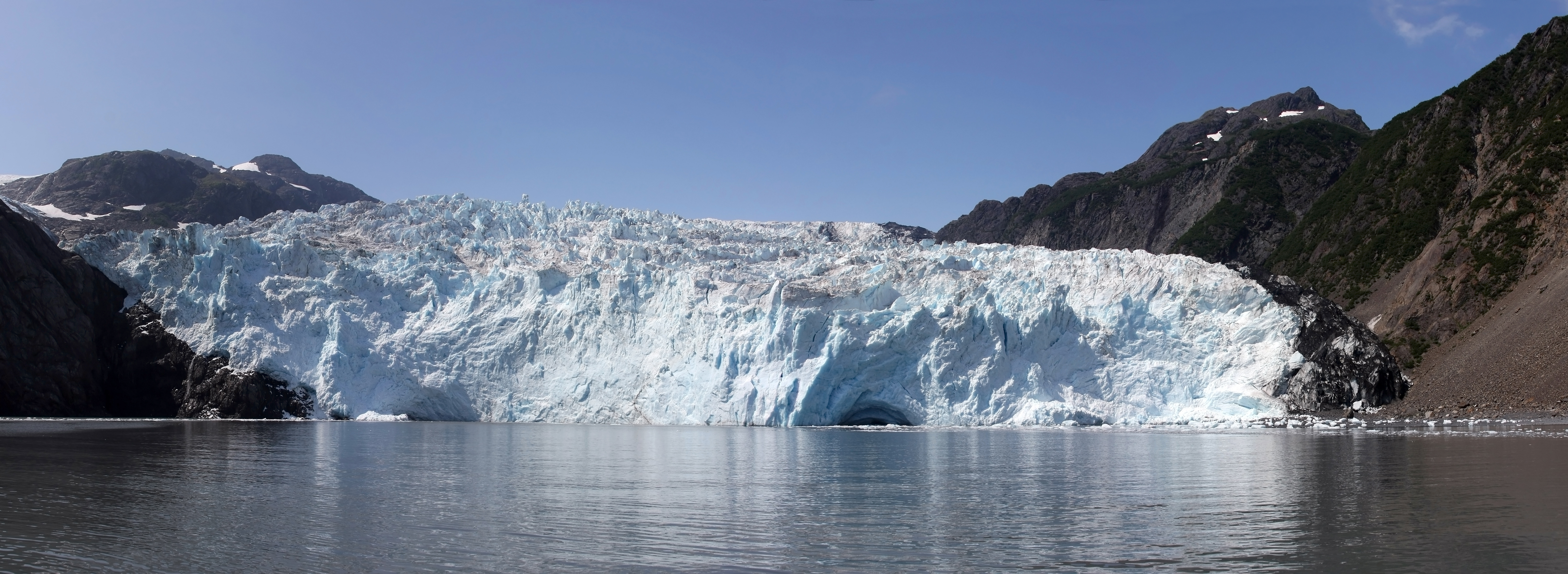 The Aialik Glacier in Kenai Fjords National Park, Alaska. The glacier is about 1.3 km wide and over 70m above sea level. The image is a composite of 4 hand held vertical exposures.